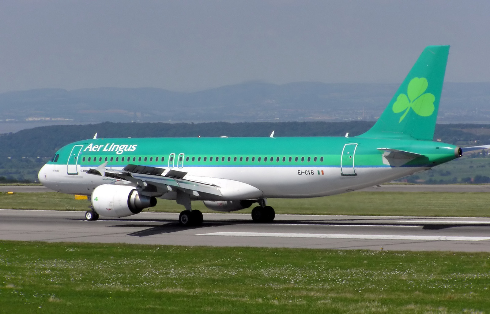 Aer Lingus Airbus A320-200 (Irish registration EI-CVB) taxis at Bristol International Airport, Bristol, England. Photographed by Adrian Pingstone in August 2005 and released to the public domain.